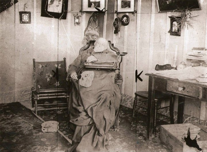 The famous post-mortem photo of former president of Argentina Domingo F. Sarmiento. It was taken in Asunción, Paraguay (where Sarmiento died), one day following his death.